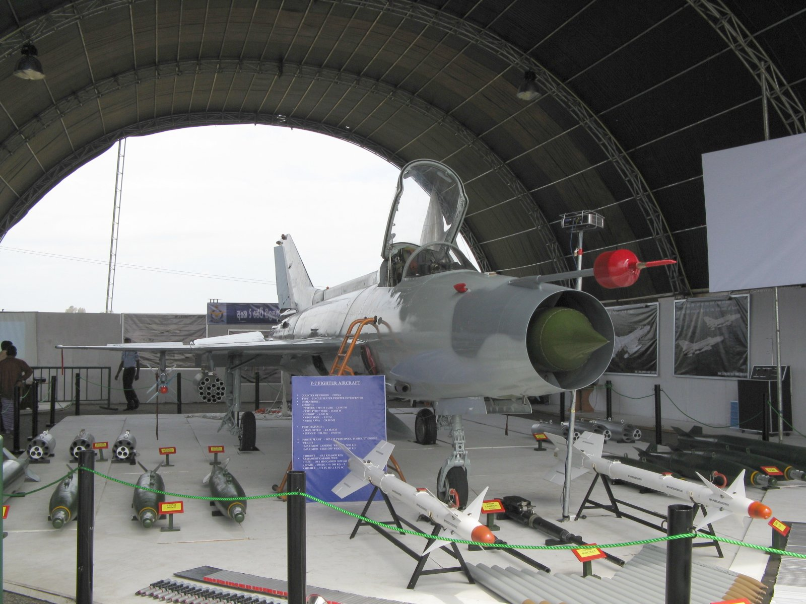 Sri Lanka Air Force Chengdu F-7GS Interceptor Aircraft, export version of the Chinese Chengdu J-7.